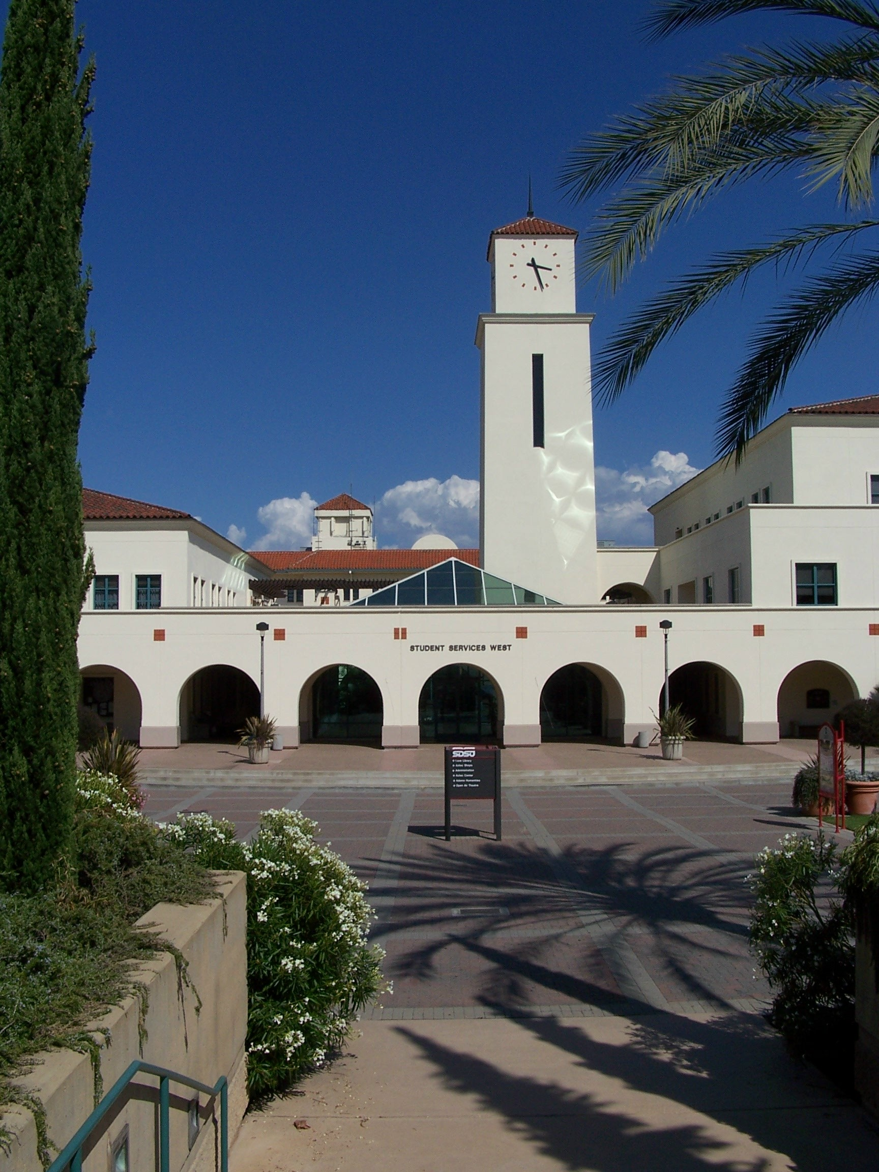 Student Services at San Diego State University. Picture taken on September 4, en:2006 by User:Nehrams2020